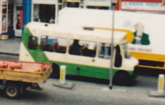 An Eastern Scottish 'City Sprinter' in Bruntsfield Place, Edinburgh. In the post-deregulation era of the late 1980s, Eastern Scottish tried to use these little Dodge 50 minibuses on various C-prefixed route numbers, to try to compete with the incumbent, Lothian Region Transport, on the busier routes within the city limits, without much success.